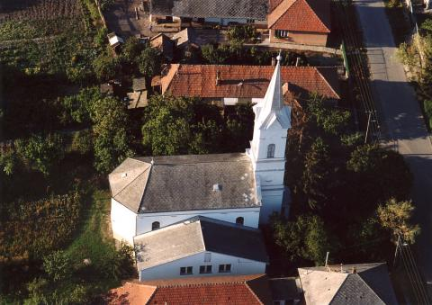 Vámosújfalu, Hungary, aerialphotgraphy